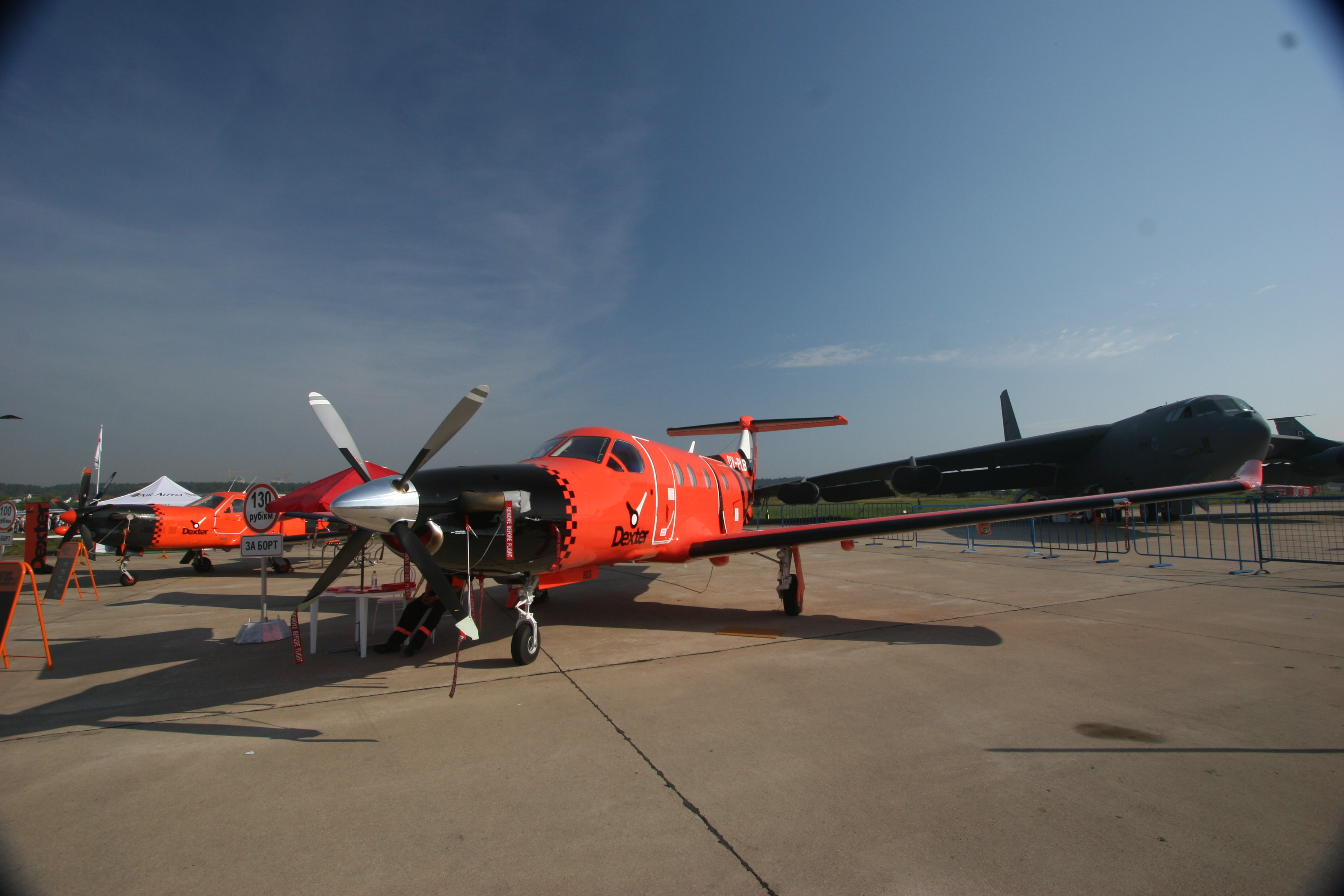 Pilatus PC-12 and Myasishchev M-101T Gzhel aviataxi operated by Dexter, 2007 MAKS Airshow